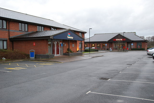 Travelodge and Cafe Situated on the Southbound Carriageway of the new stretch of the M6, near Todhills, just North of Carlisle.